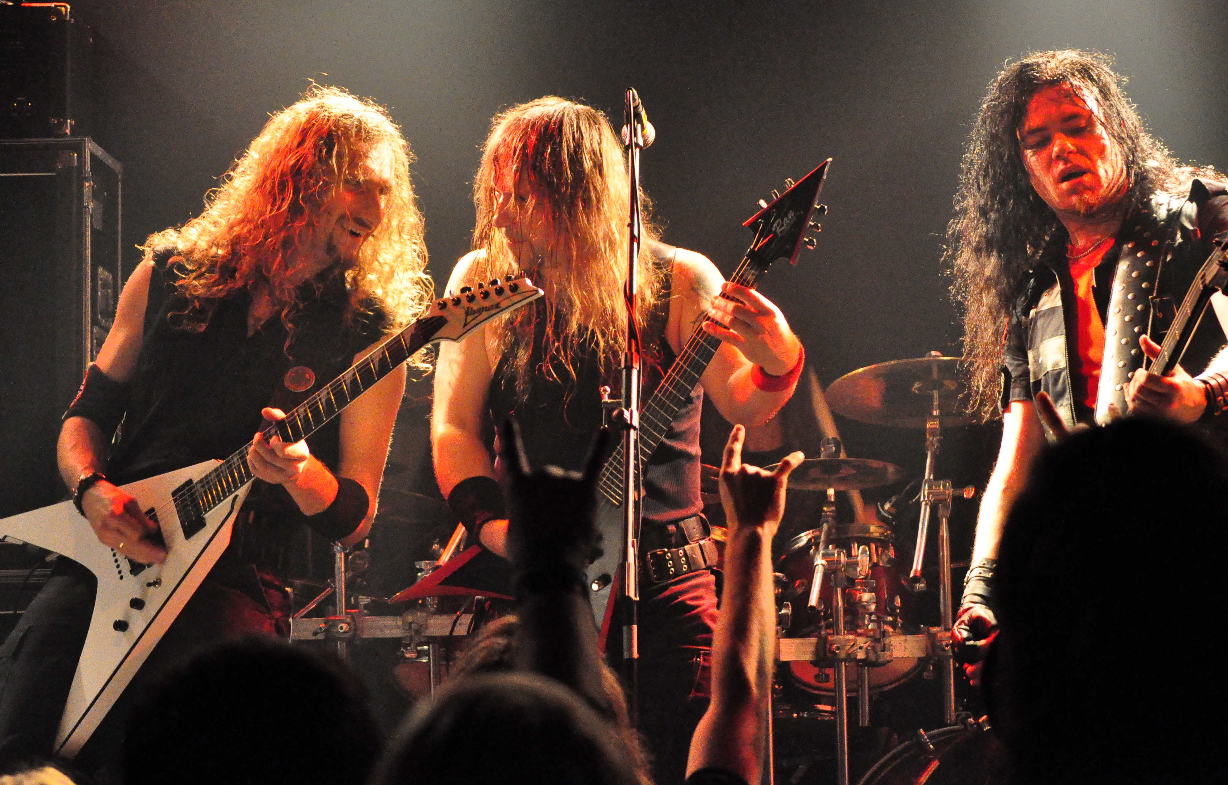 Vader playing in Rostock, Germany, 2011